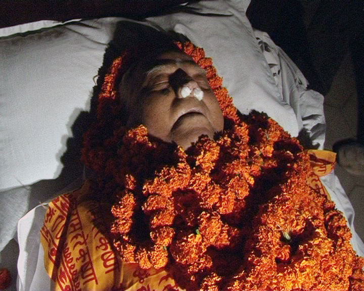 Krishna Prasad Bhattarai, former prime minister of Nepal.